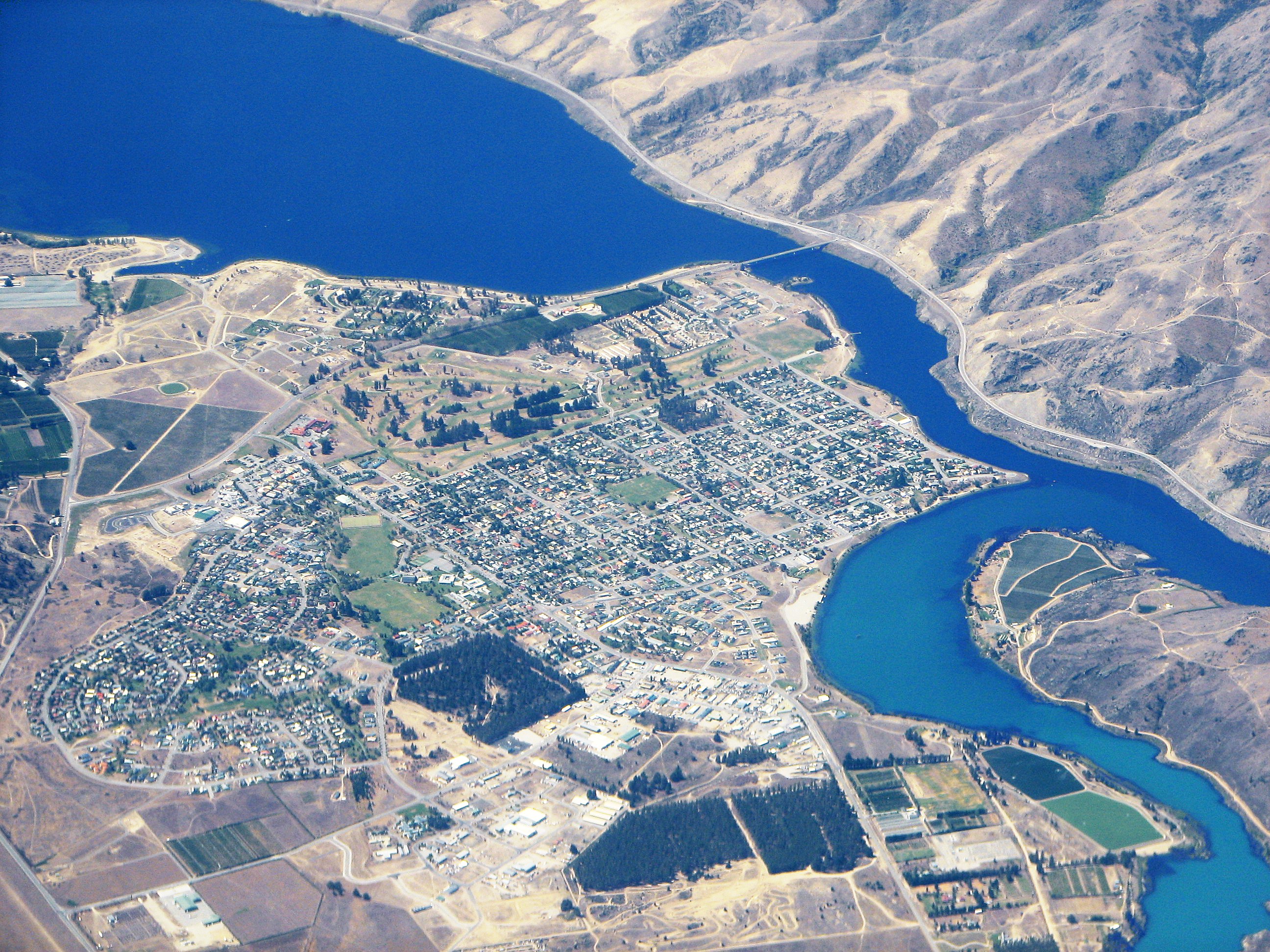 Cromwell, New Zealand. Aerial photograph from the south, taken 15 February 2006. Lake Dunstan is at the top left, and the confluence of the Kawarau and Clutha Rivers is on the right.